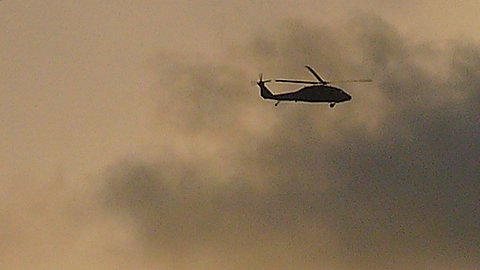 Israeli Army chopper flying to Lebanon during the 2006 Israel-Lebanon conflict.